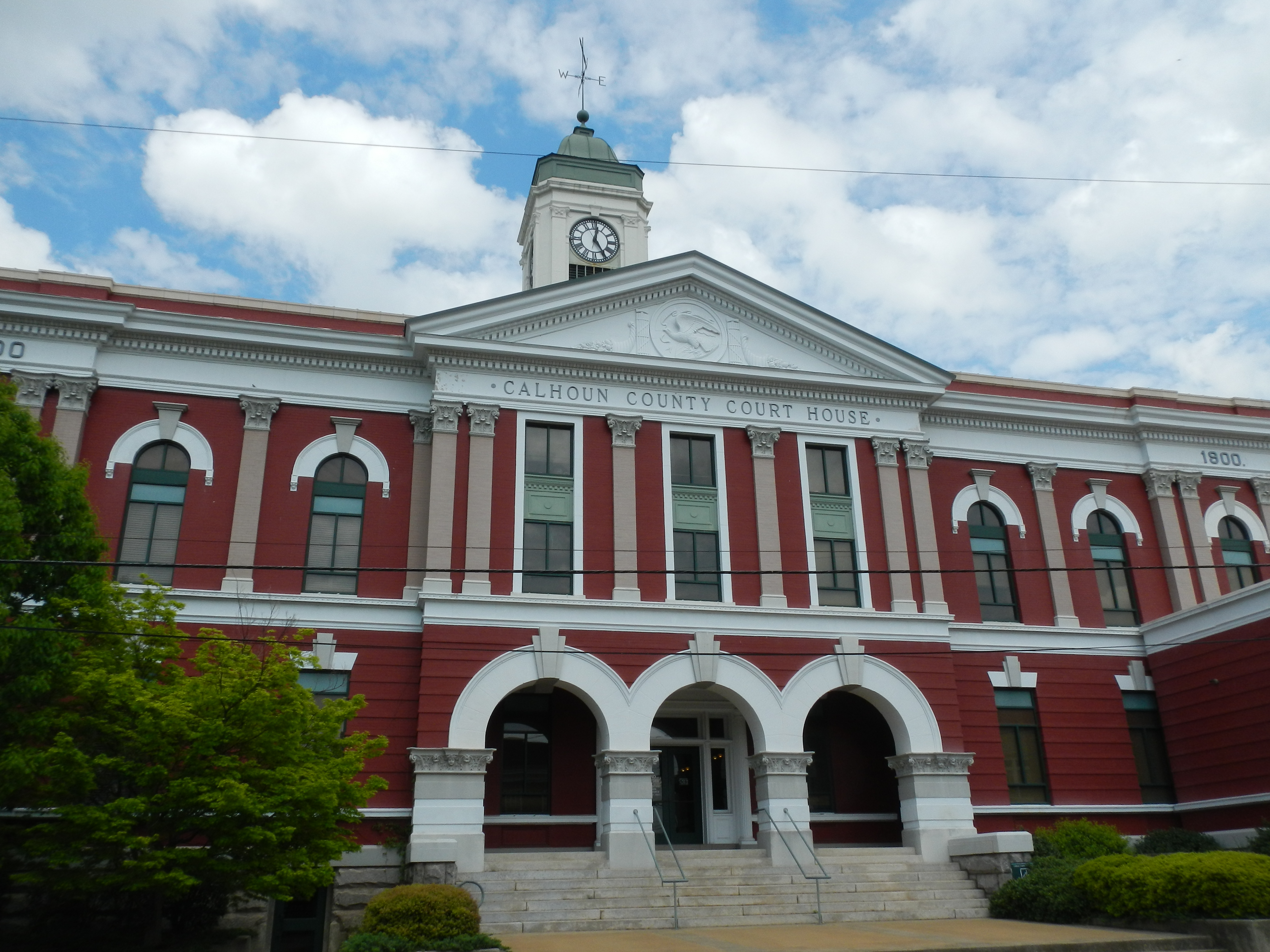 This is a photograph of the Calhoun County Courthouse in Anniston, Alabama.